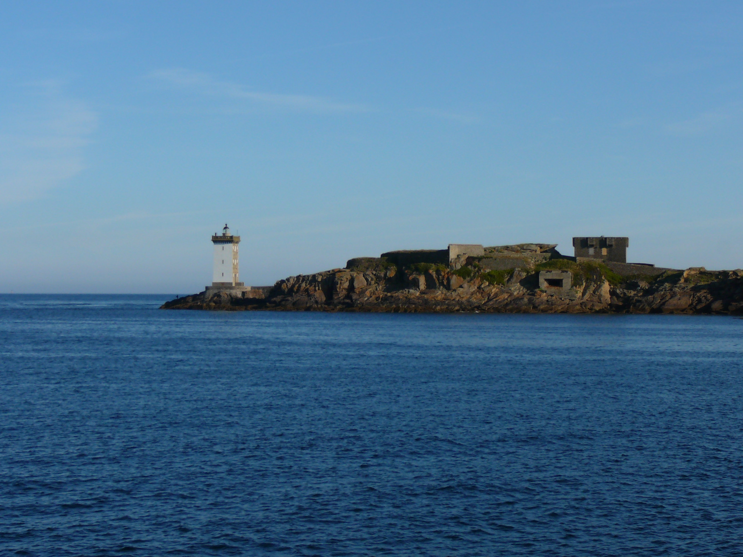 Kermorvan lighthouse at Le Conquet